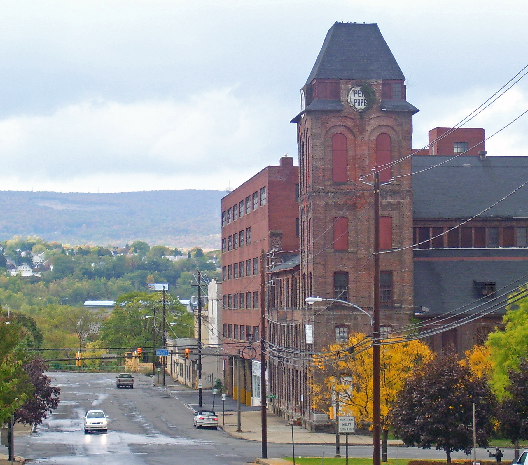 Pennsylvania Paper & Supply Company building in Scranton, PA, USA, with distinctive tower seen in opening credit sequence of US version of The Office. This building was previously owned by Dickson Manufacturing Company.